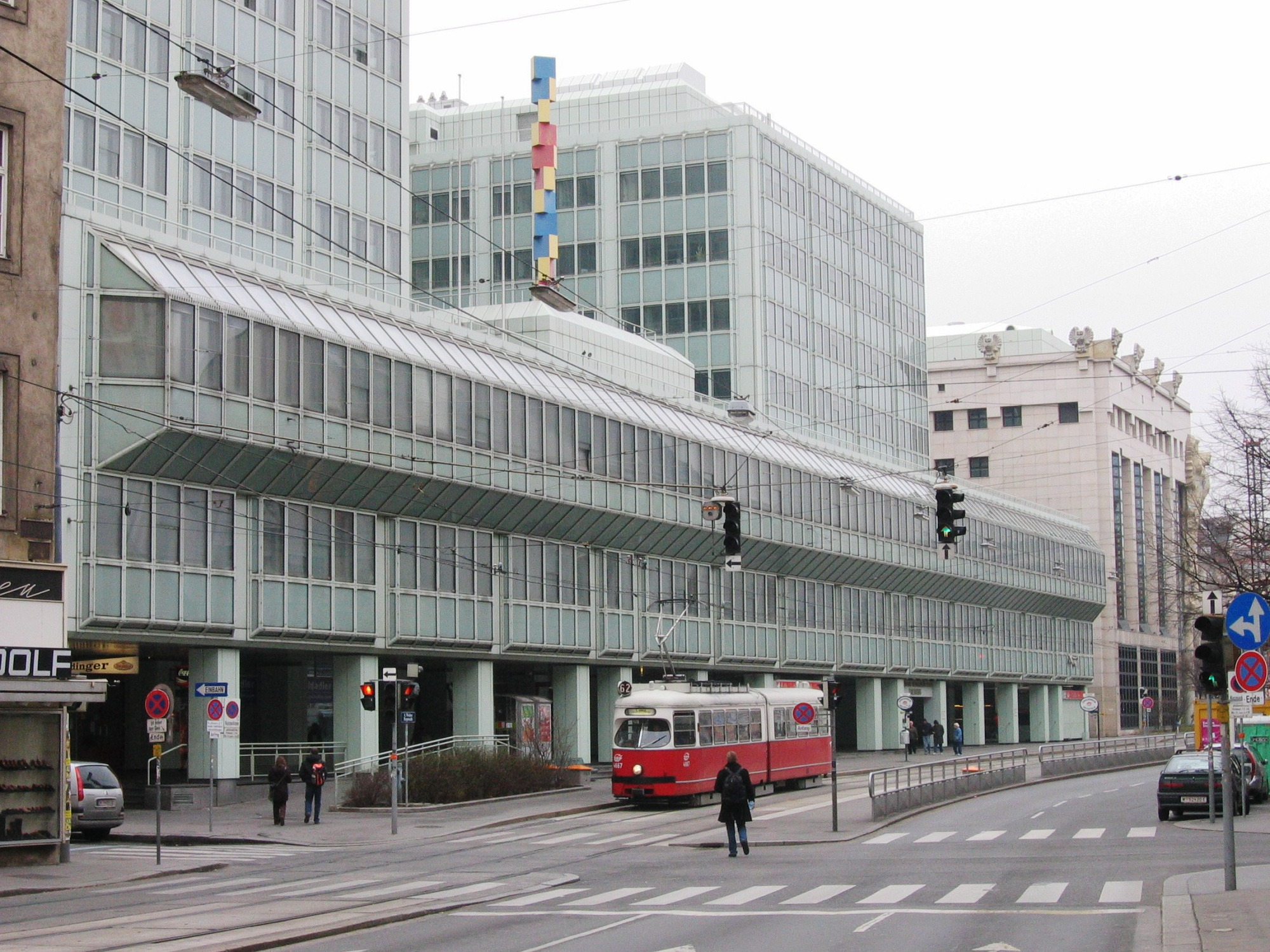 The Technical University buildings in the Wiedner Hauptstraße in Vienna